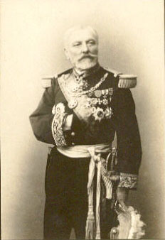 The vice admiral Hyacinthe Laurent Theophile Aube (1826-1890)